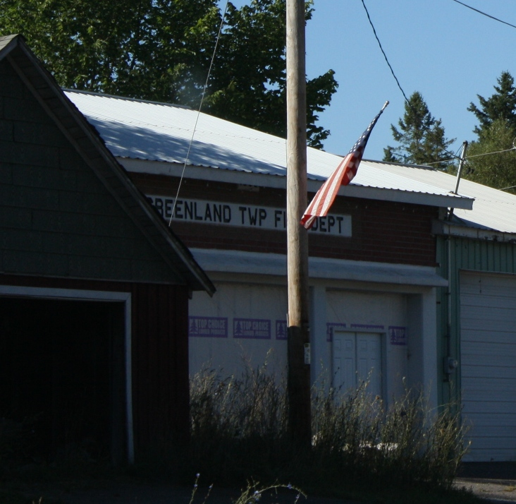 Looking the fire station for Greenland Township in Mass City, Michigan on M-26 (Michigan highway).